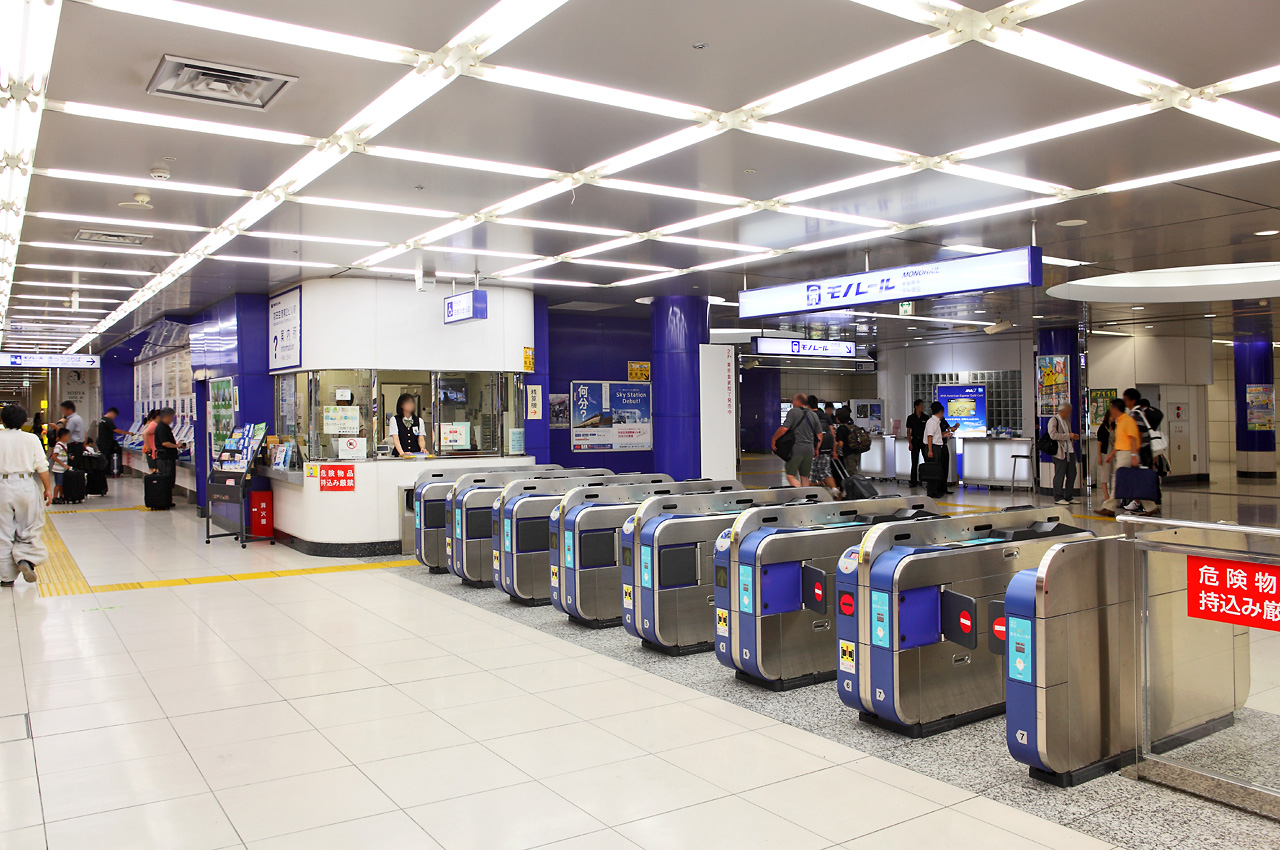 The ticket gates at Haneda Airport Terminal 2 Station on the Tokyo Monorail Haneda Airport Line